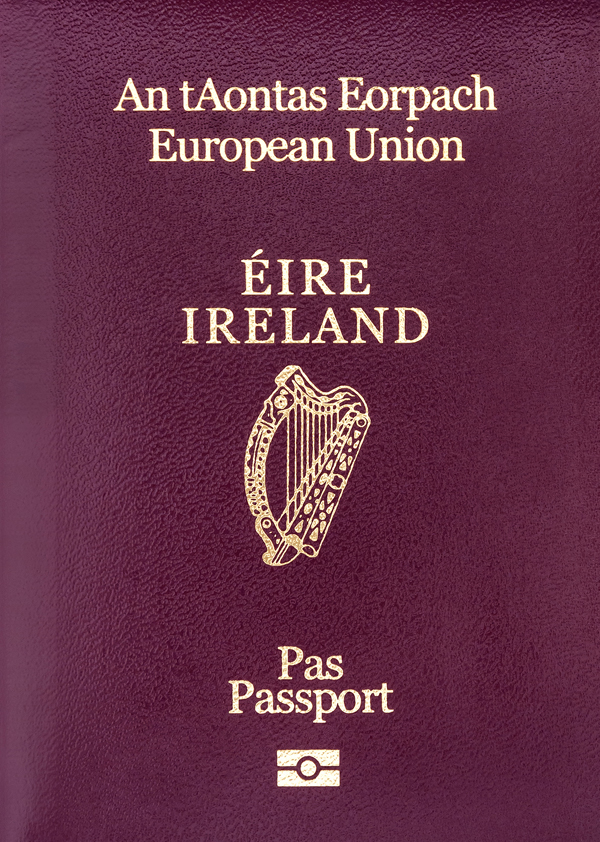 The cover of Irish electronic Passports as of late 2006